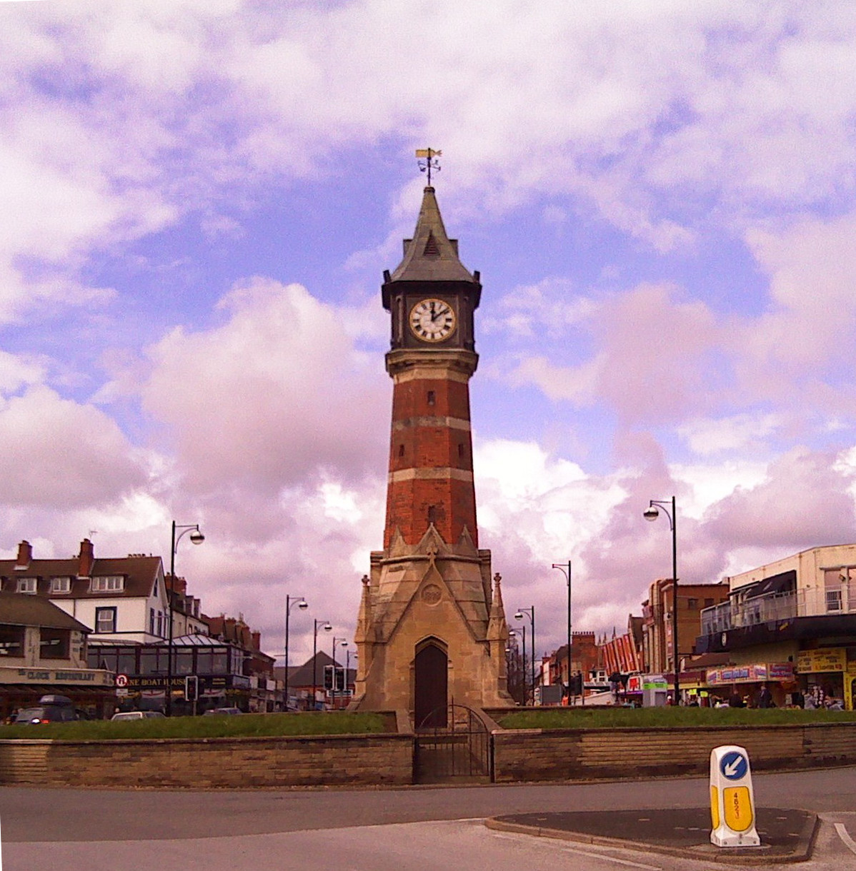 The 1898 Diamond Jubilee Clock Tower which was built to mark Queen Victoria's sixty years on the throne and is a central landmark in the seaside town of Skegness in Lincolnshire!